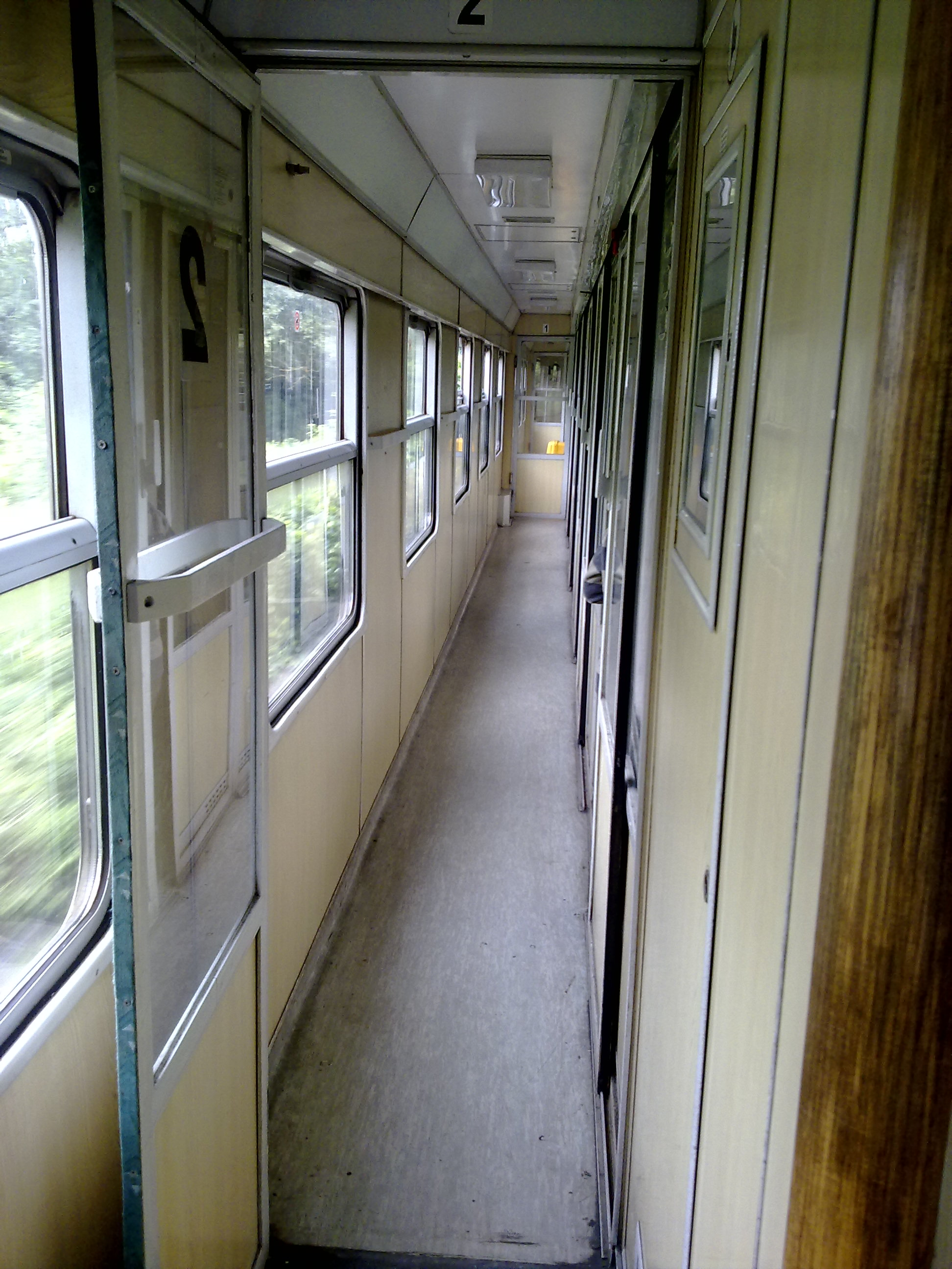 Corridor of a mixed first and second class coach operated by Hrvatske Željeznice (Croatian Railways).